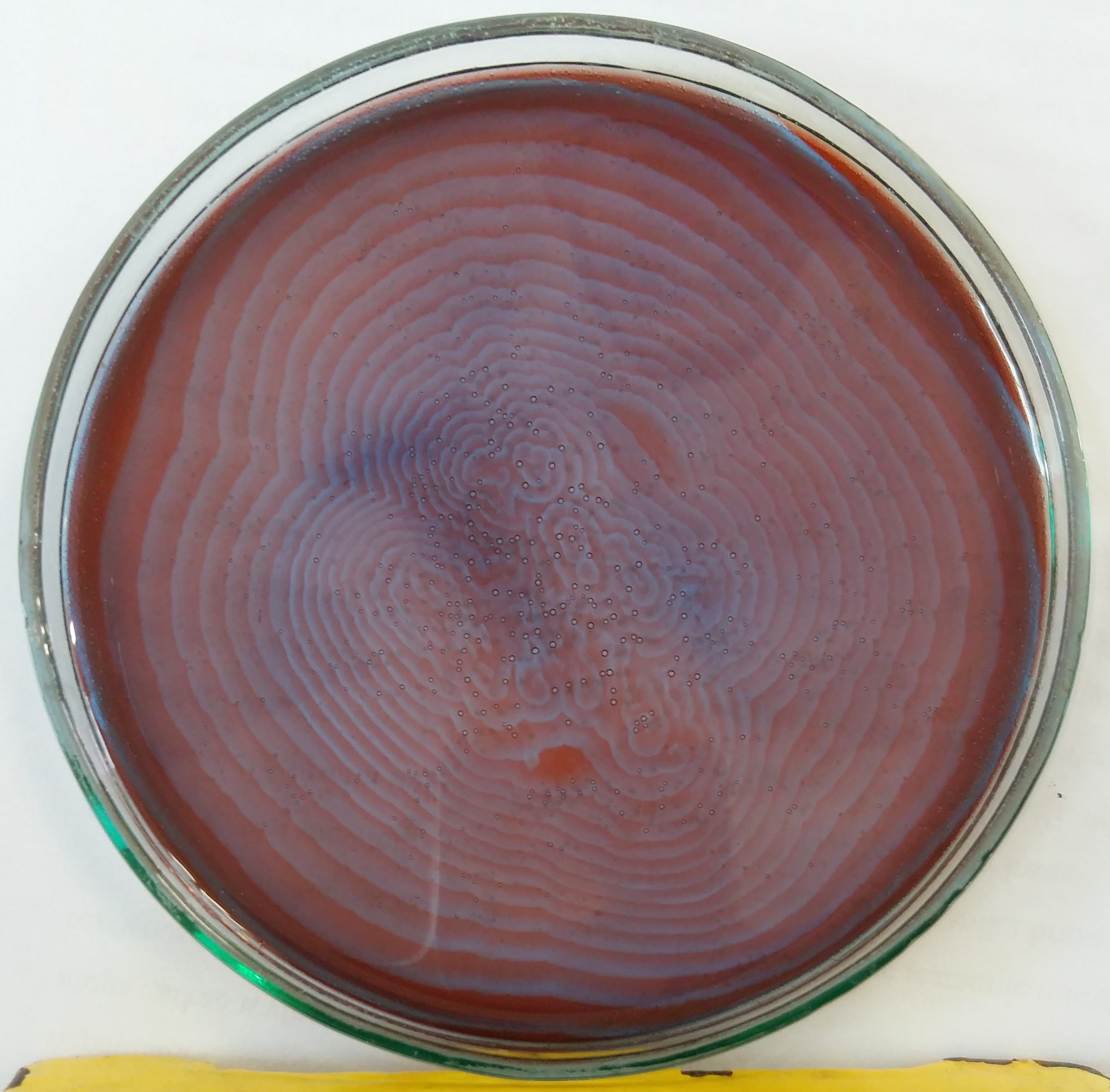 Well-evolved stage of the centrally-initiated Belousov–Zhabotinsky reaction in the Petri dish